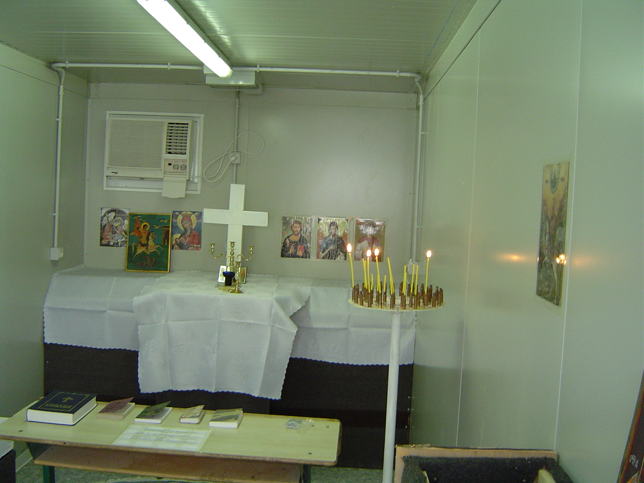 First Bulgarian military chapel abroad (Iraq)